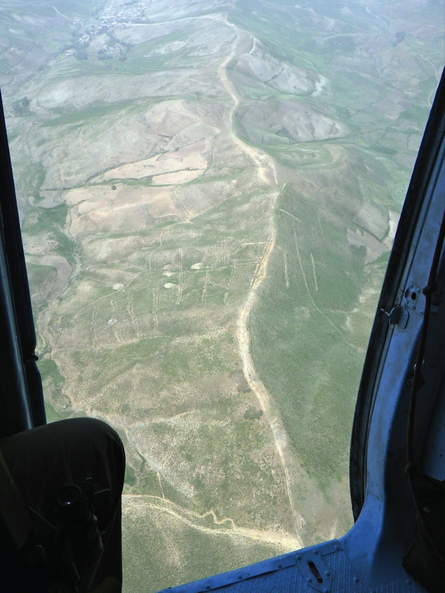 Aerial view over Weka Dur, Afghanistan’s largest known gold deposit, Badakhshan Province.